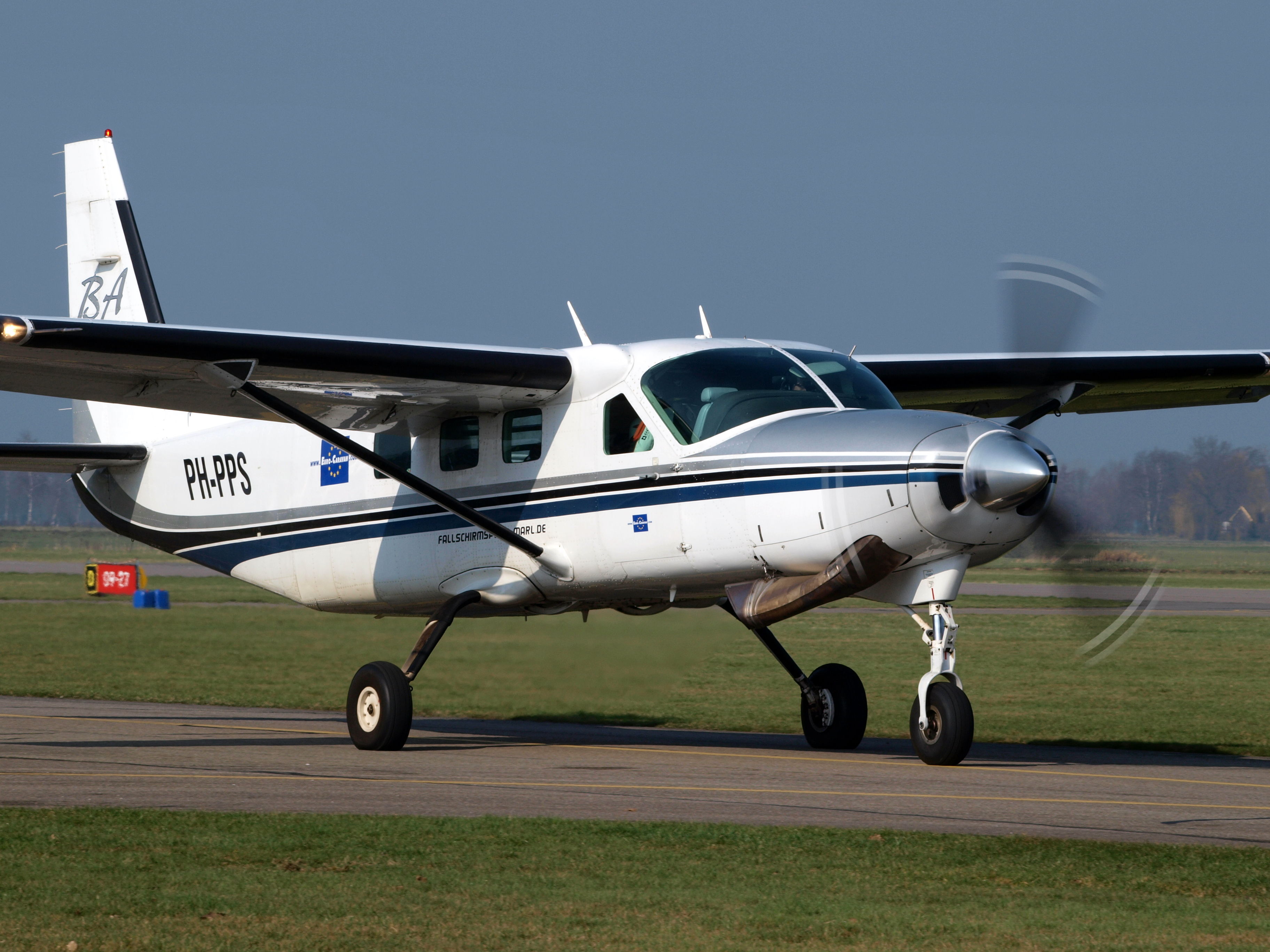 Photographed at Teuge International Airport. OLYMPUS DIGITAL CAMERA